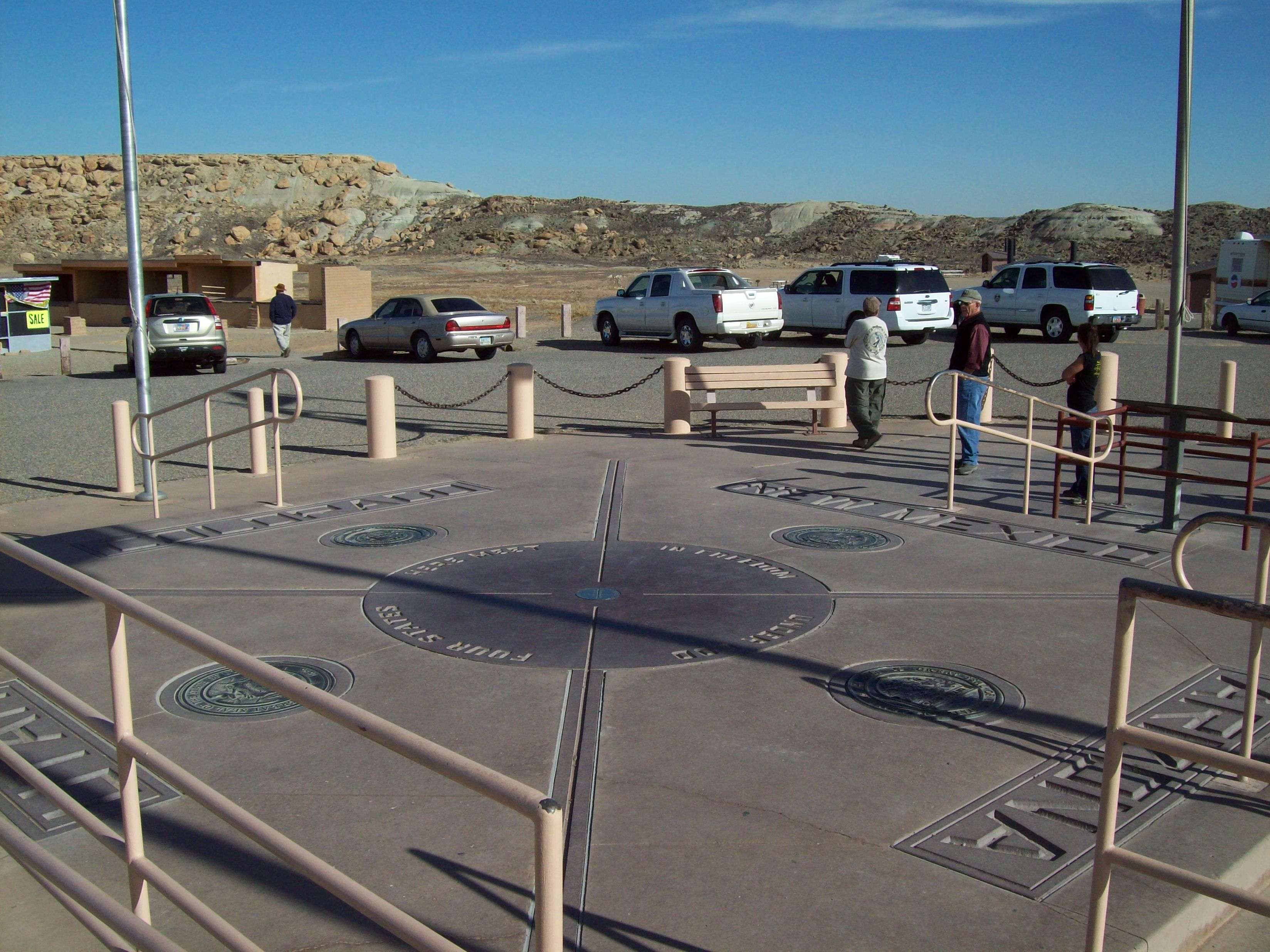 The Four Corners Monument in November 2009